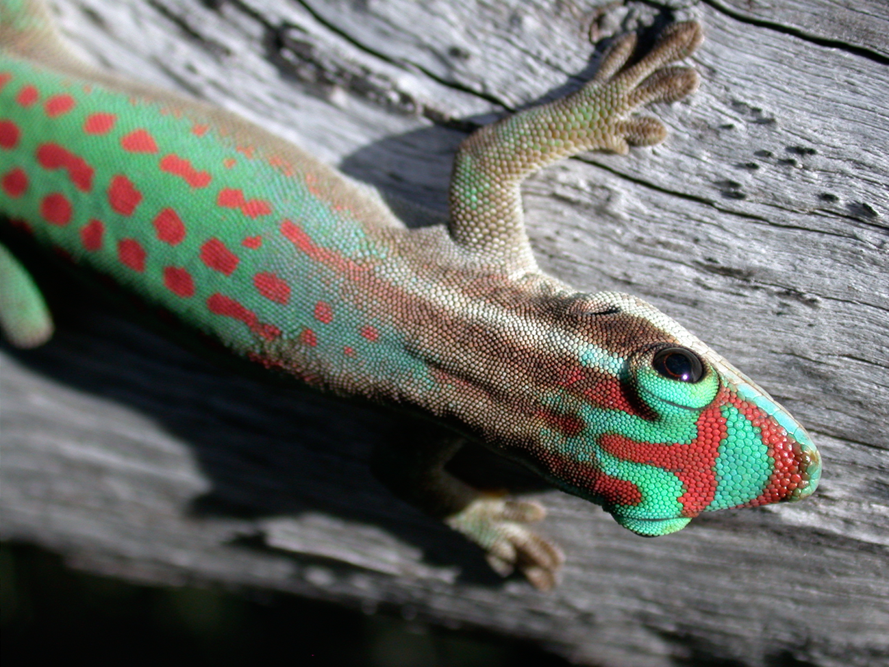 An ornate day gecko, Phelsuma ornata.